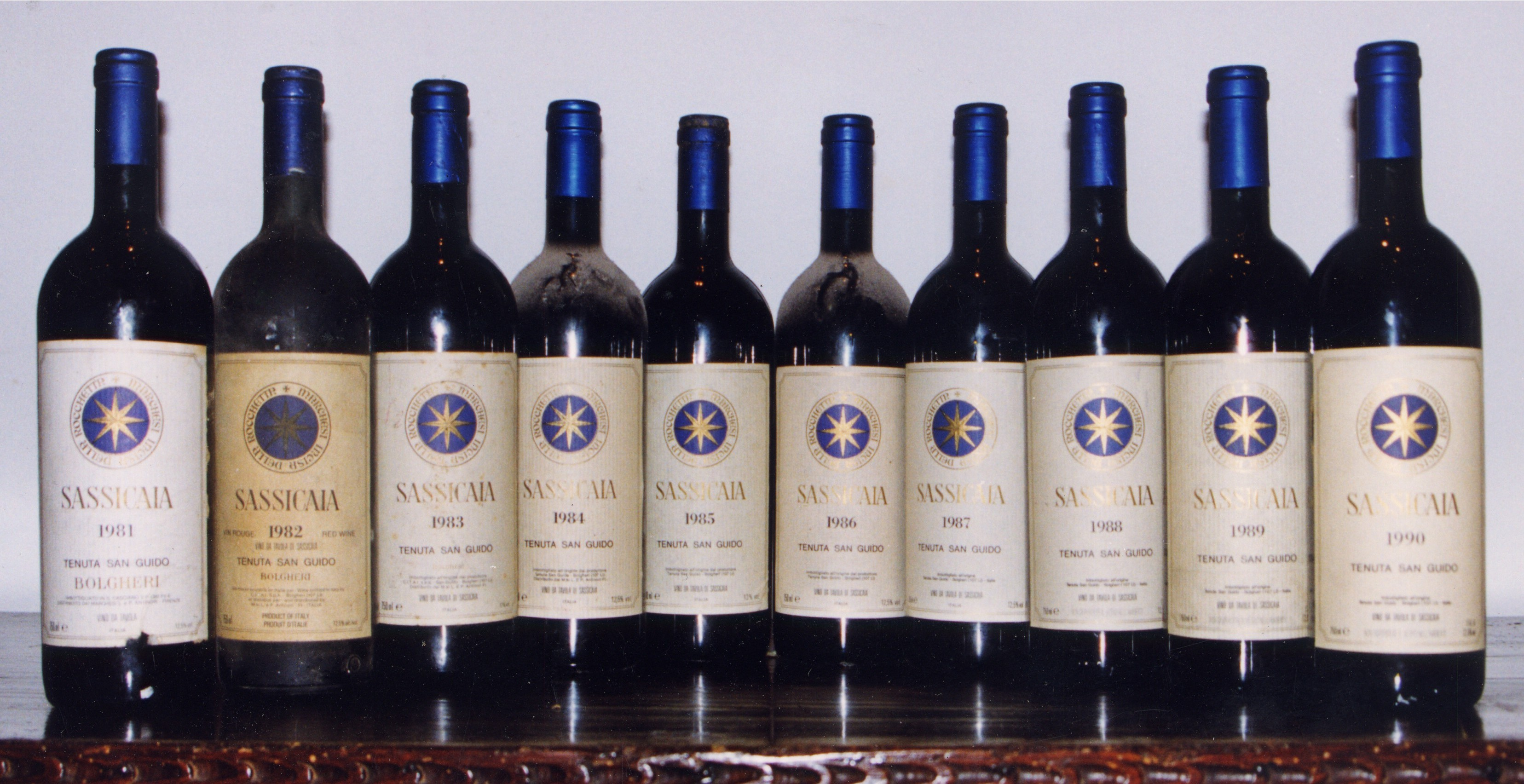 Bottles of Sassicaia